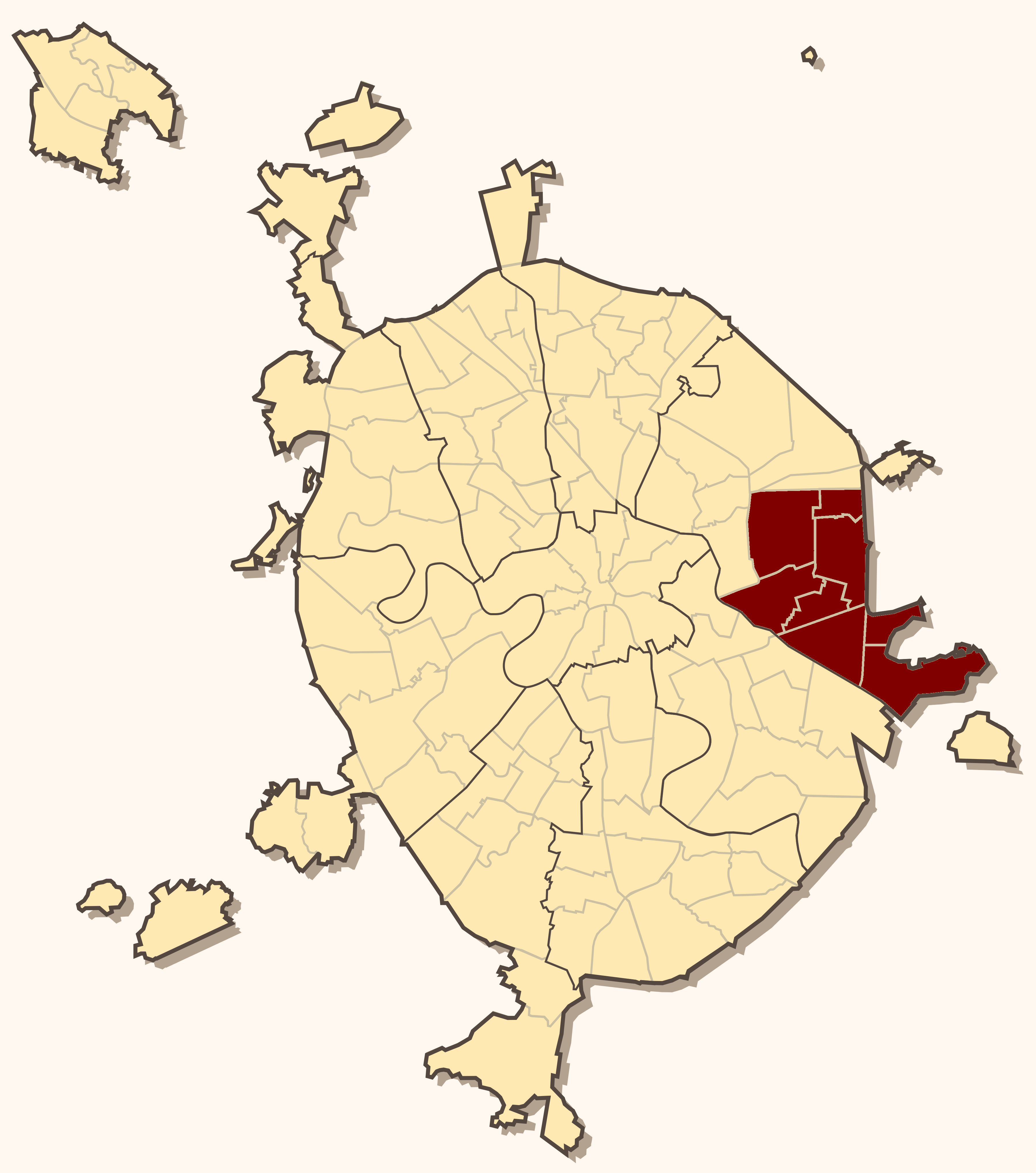 Map of Rozhdestvenskoe Blagochinie of Moscow